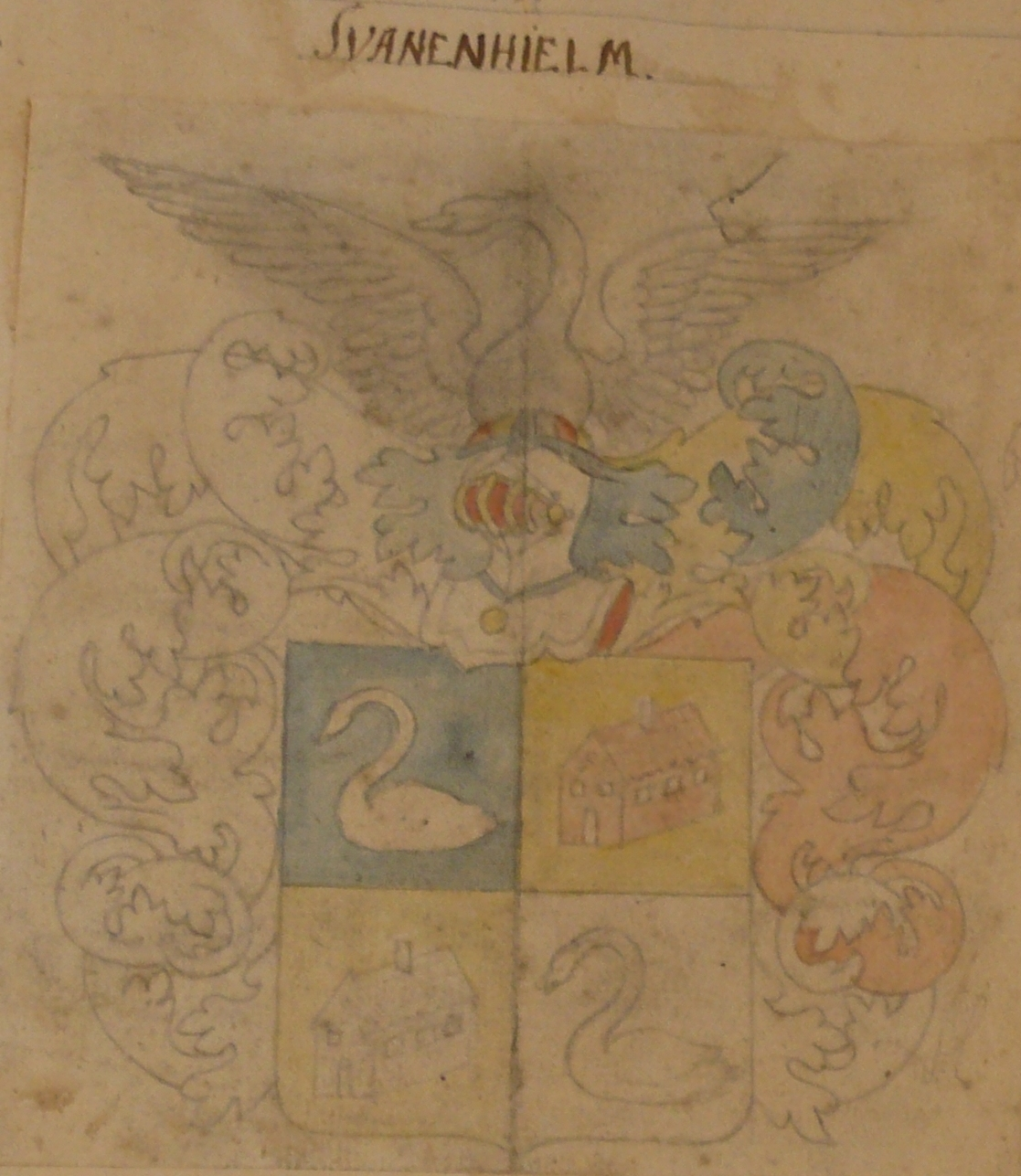 Arms of Severin Svanenhjelm born Seehusen in Norway from 1720